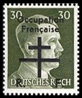 Postage stamp of Nazi Germany overprinted for the French occupation zone by 'France Libre', 30 pfennigs, 1945